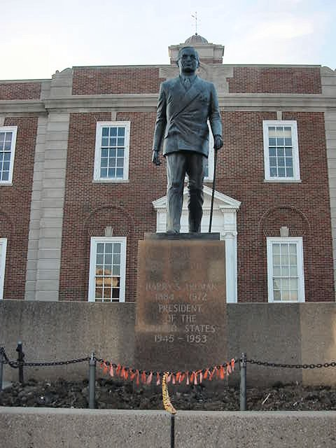 Harry S. Truman statue situated in Independence Square, Independence, Jackson County, Missouri, USA. The east side of the old courthouse is in the background.